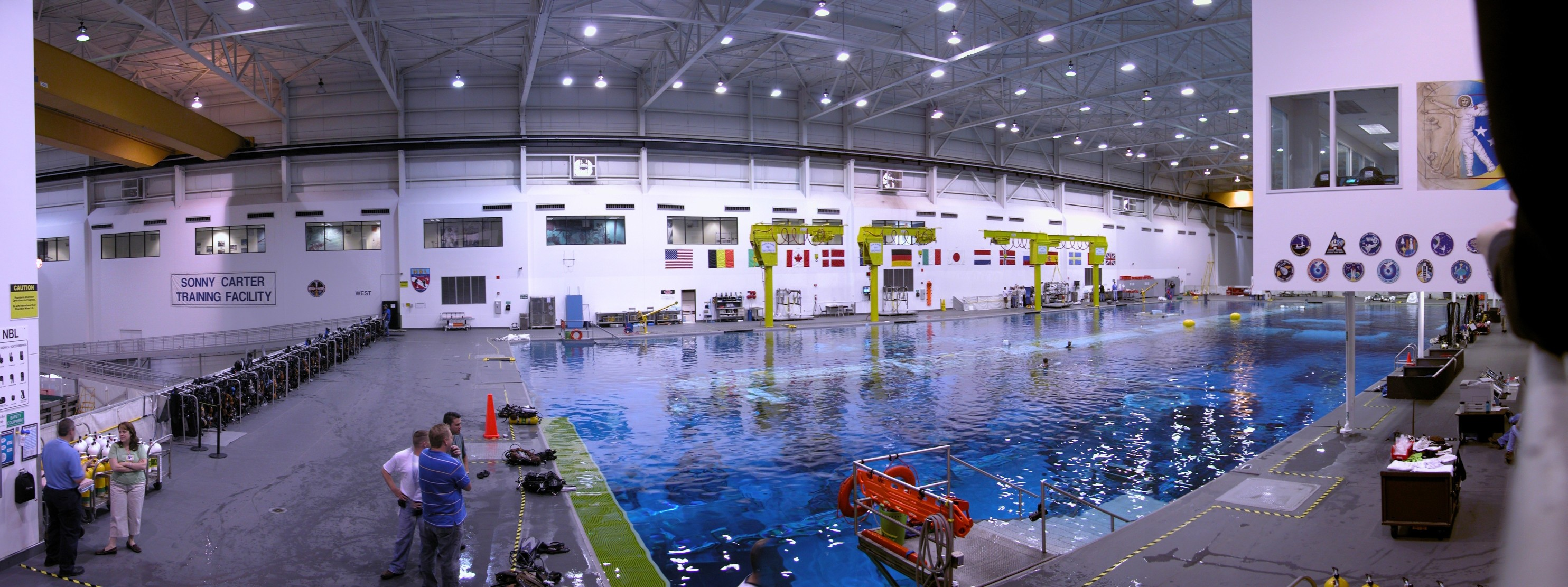 Panorama of the NASA Neutral Buoyancy Laboratory at the Johnson Space Center in Houston, Texas.